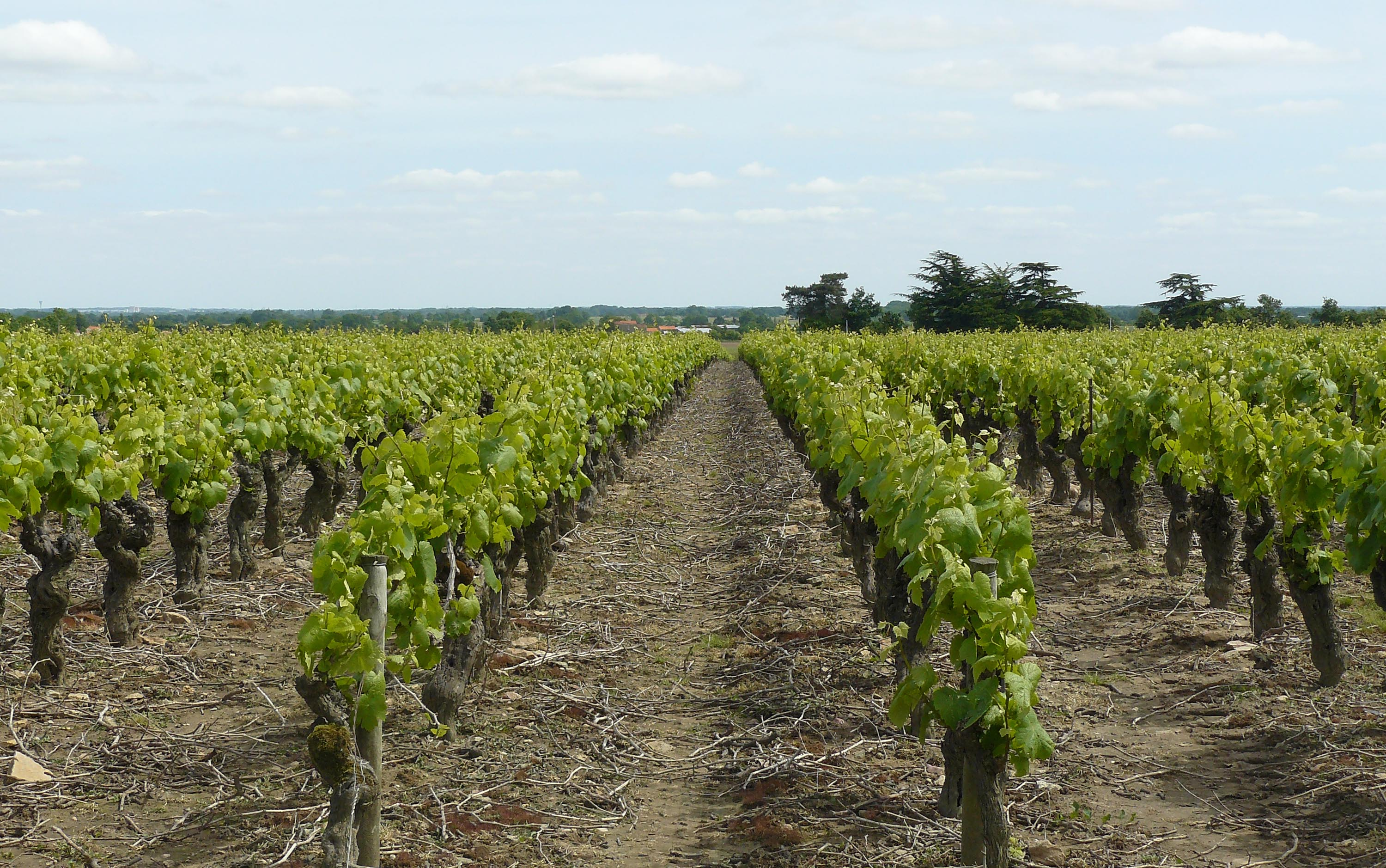 Vineyard of muscadet in Remouillé, France